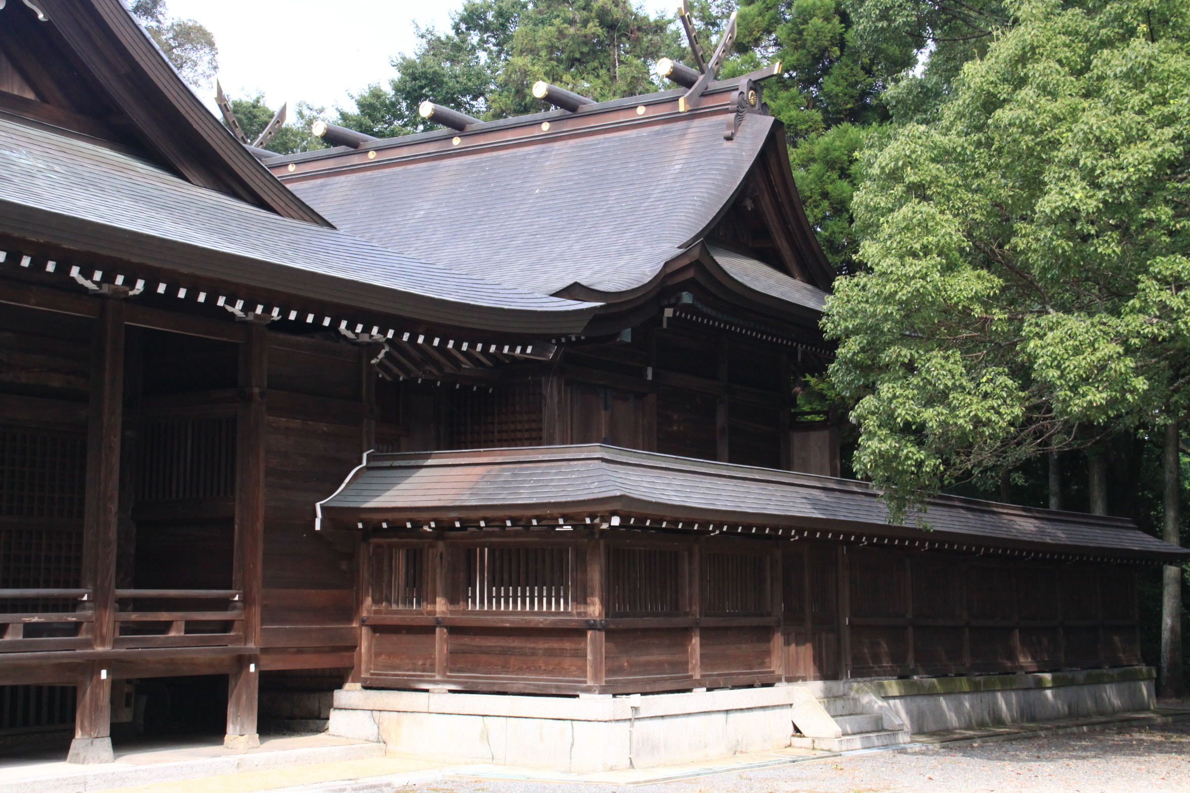 ChirikuHachimangū Honden